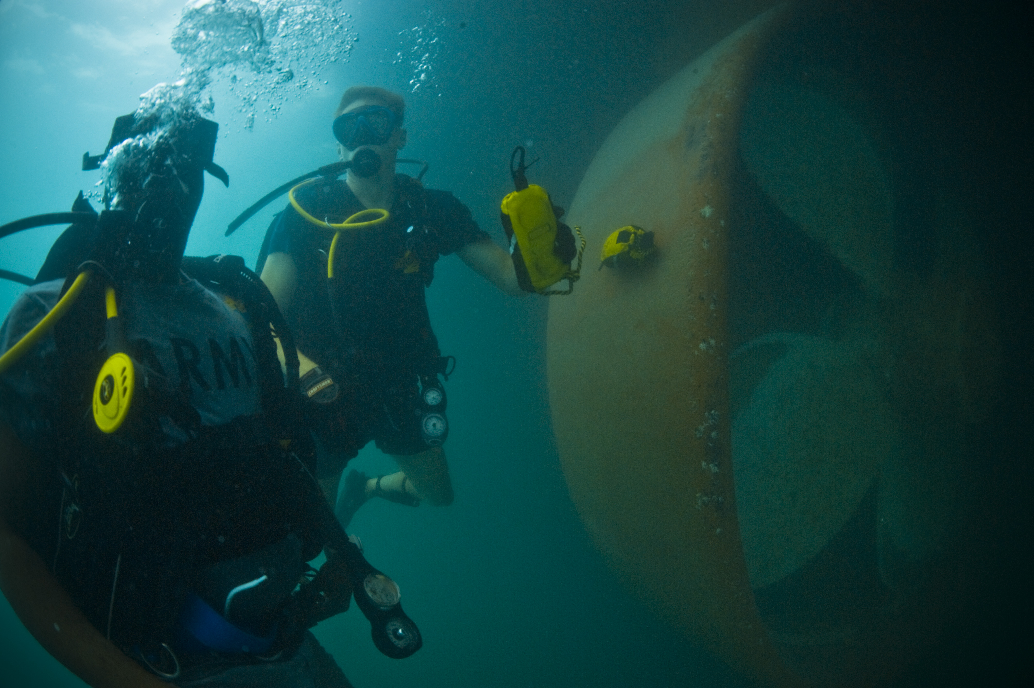 BRIDGETOWN, Barbados (May 27, 2010) Navy Diver 2nd Class Matt Wilson, assigned to Mobile Diving and Salvage Unit (MDSU) 2, Company 2-6, and a Barbados Coast Guard diver locate and mark a simulated explosive on the hull of the Military Sealift Command rescue and salvage ship USNS Grasp (T-ARS 51). MDSU-2 is participating in navy diver exercises as part of Southern Partnership Station, a multinational partnership engagement designed to increase interoperability and partner nation capacity through diving operations. (U.S. Navy photo by Mass Communication Specialist 2nd Class Chris Lussier/Released)